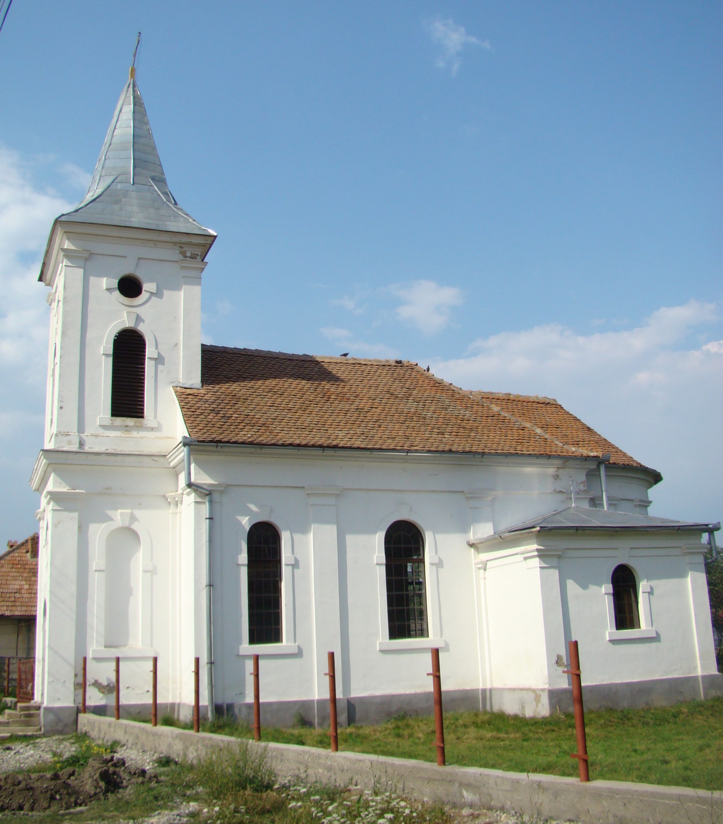 Cârțișoara, Sibiu county, Romania